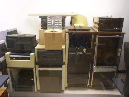 Softlab Maestro 1978-79 credit: Museum of Information Technology at Arlington